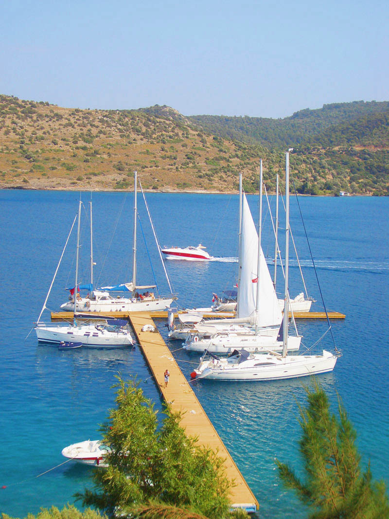 Port Atami, floating dock / marina,located in Cennet Koyu (Paradise Bay),Golturkbuku, Bodrum, Turkey. Location:37 degrees 07'27" north, 27 degrees 25'07" east, on the Aegean coast of Turkey. Mooring capacity of 50 boats.